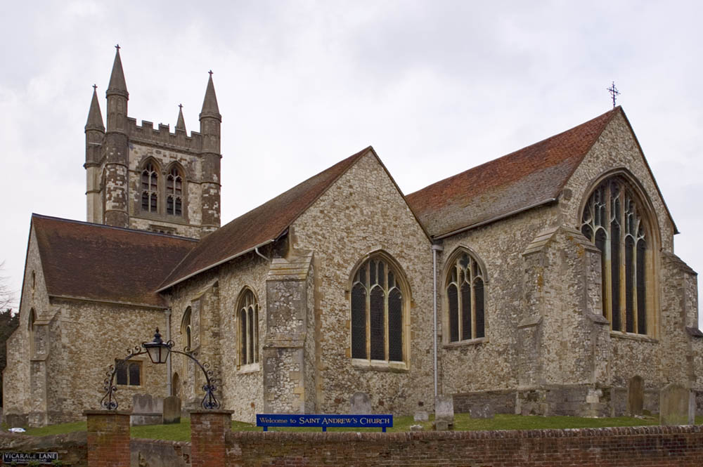 St Andrews Church seen here from the junction of Middle Church Lane and Vicarage Lane Farnham located in the Church of England's Guildford Diocese. It is a Grade I C12th building.